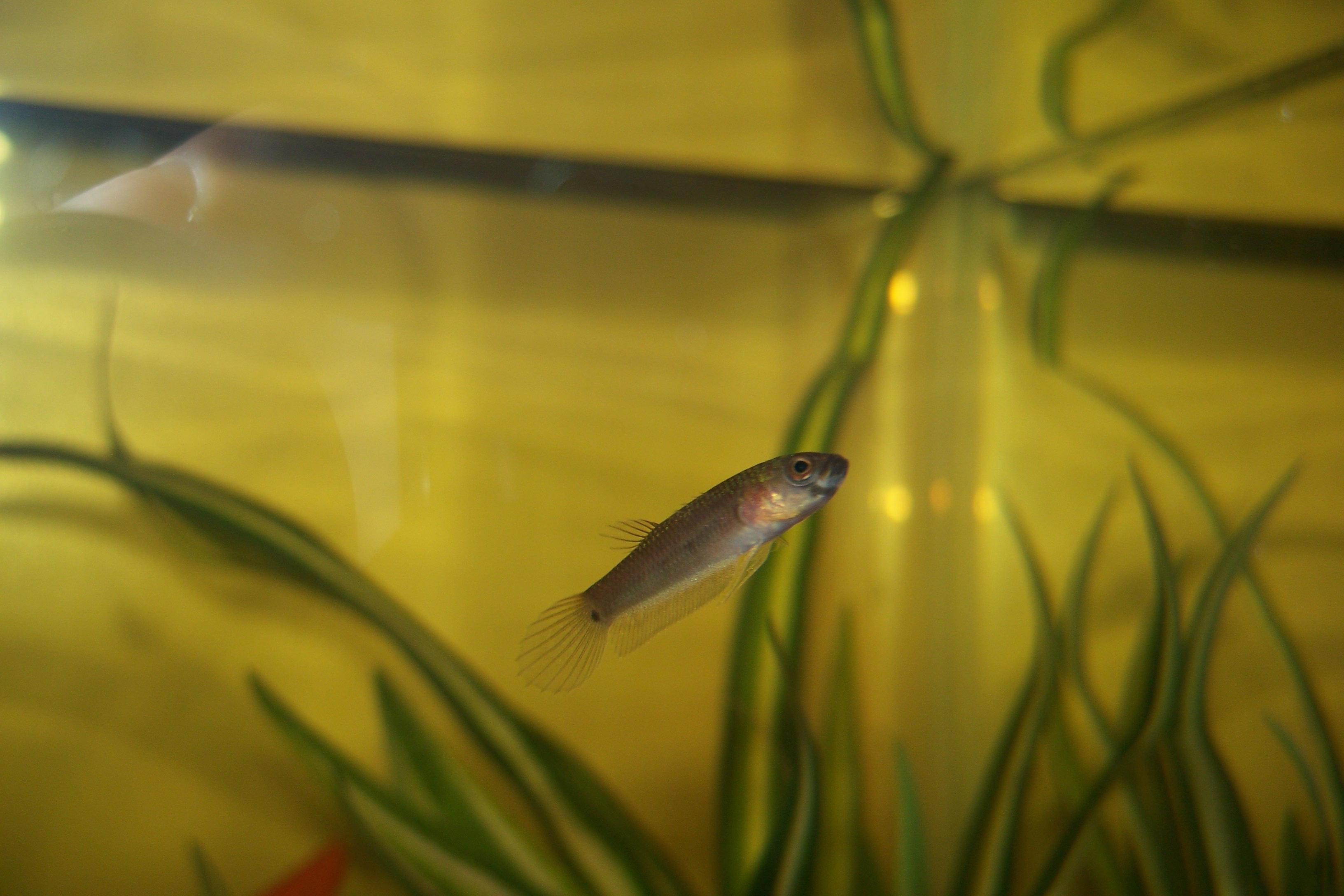 Young betta pallifina (unsexed).